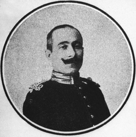 Panagiotis Gargalidis (1870-1942): Greek general